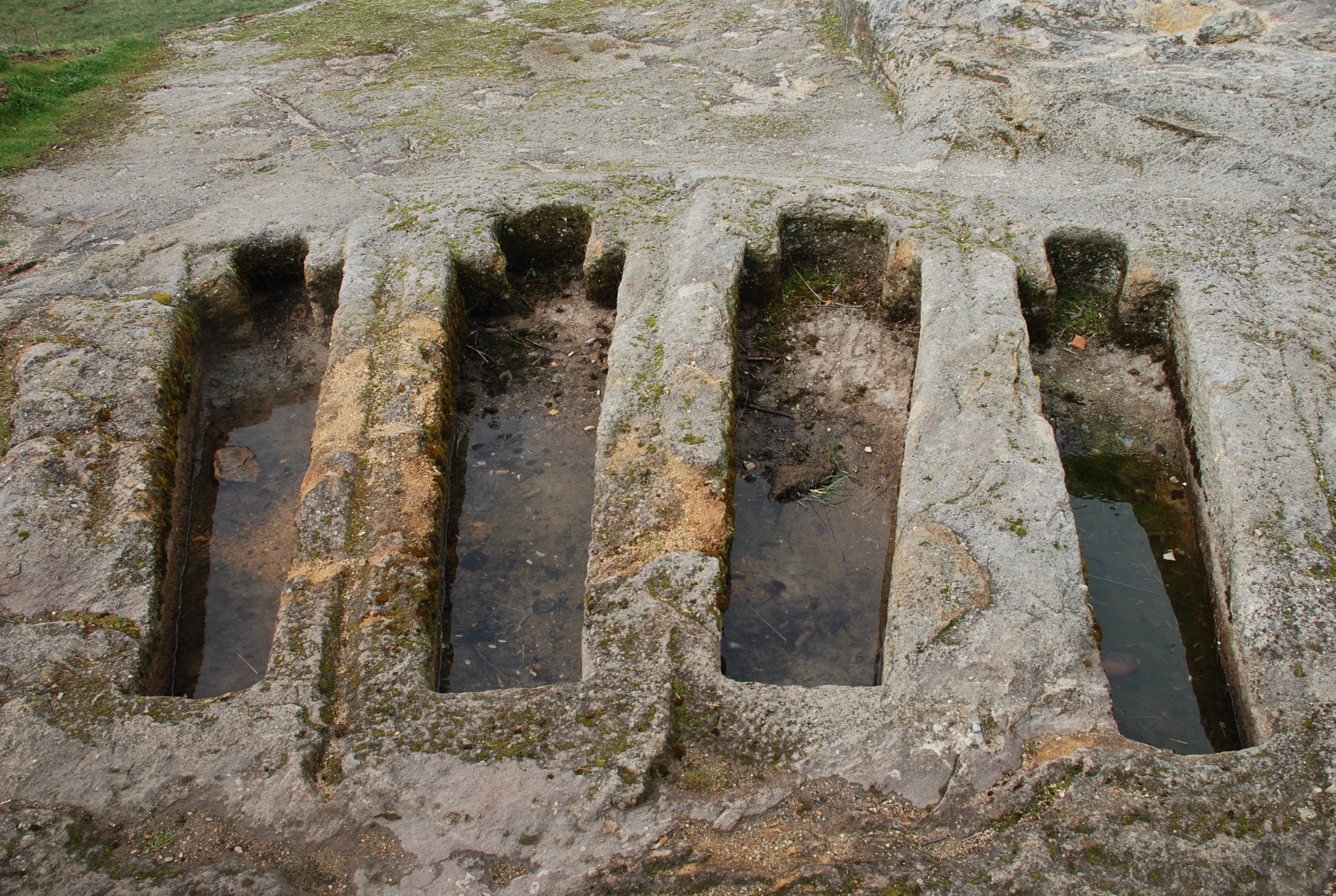 Anthropomorphic or "Olerdola" tombs at the necropolis of the rock carved chapel of San Vicente en Vado, Cervera de Pisuerga (Palencia, Castile and León). It is located close to the confluence of river Rivera with the Pisuerga, and it falls within one of the large Spanish hermitage groups, the one of Alto Pisuerga. It basically presents a large rectangular room with several entrances and rough openings, to which is added a chapel excavated in the East, differentiated from the rest by a step that may have been closed using a masonry apse. The chapel is surrounded by a necropolis, dated between the 8th and 11th centuries, where about twenty tombs excavated in the rock have been discovered, predominantly of anthropomorphic type. The chapel and the necropolis probably formed part of a small monastic complex that would possess other buildings today disappeared, as well as cells excavated in the rock (lauras) that still remain. After the monastic community disappeared, San Vicente retained its role as a chapel until the middle of the 19th century, when it was permanently abandoned.